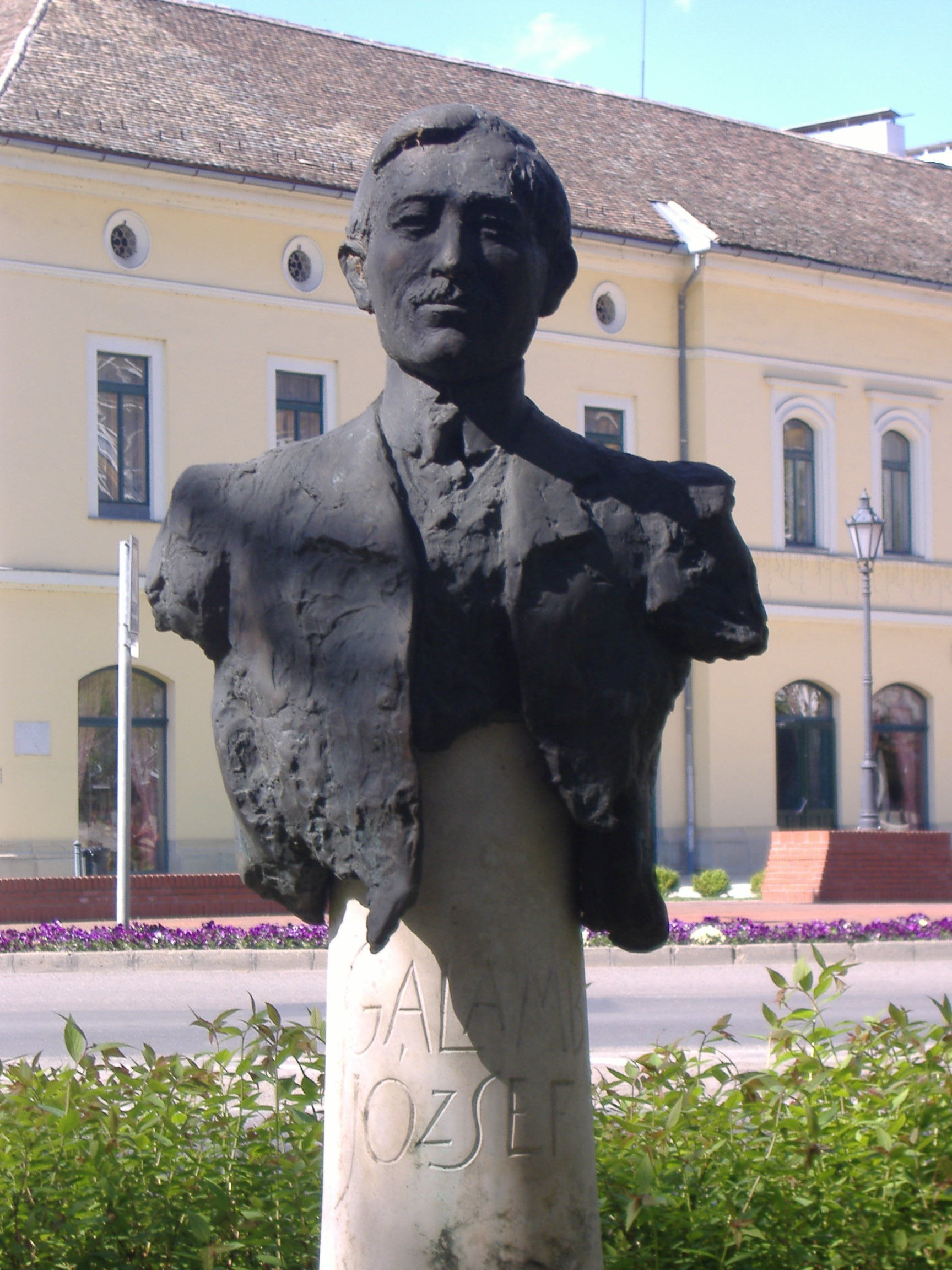 Statue of Joseph Galamb in Makó, Hungary.